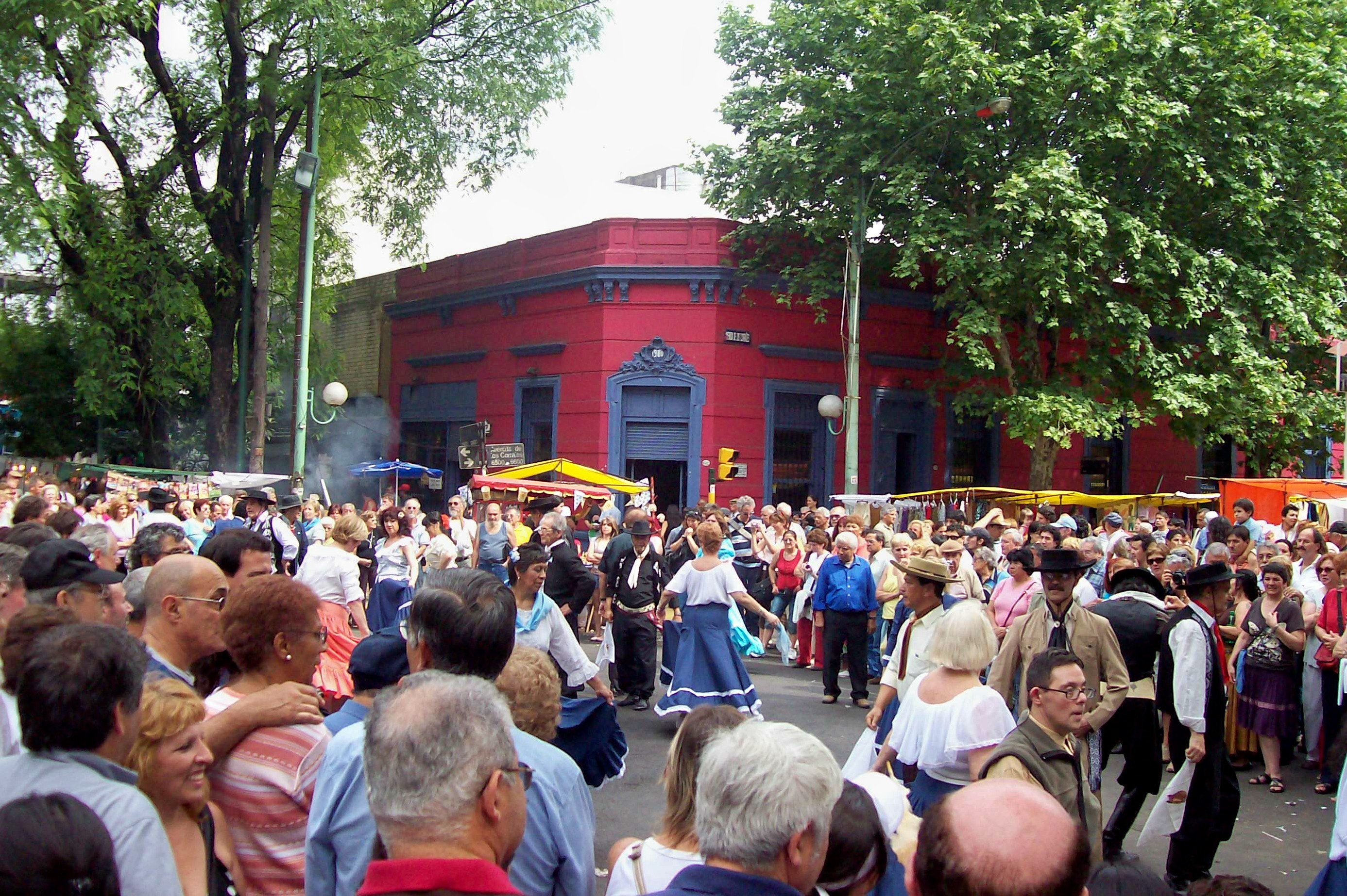 Tipical dance. Mataderos, Buenos Aires city. Intersection of Lisandro de la Torre avenue and "de los Corrales" avenue. Photograph taken from N to S